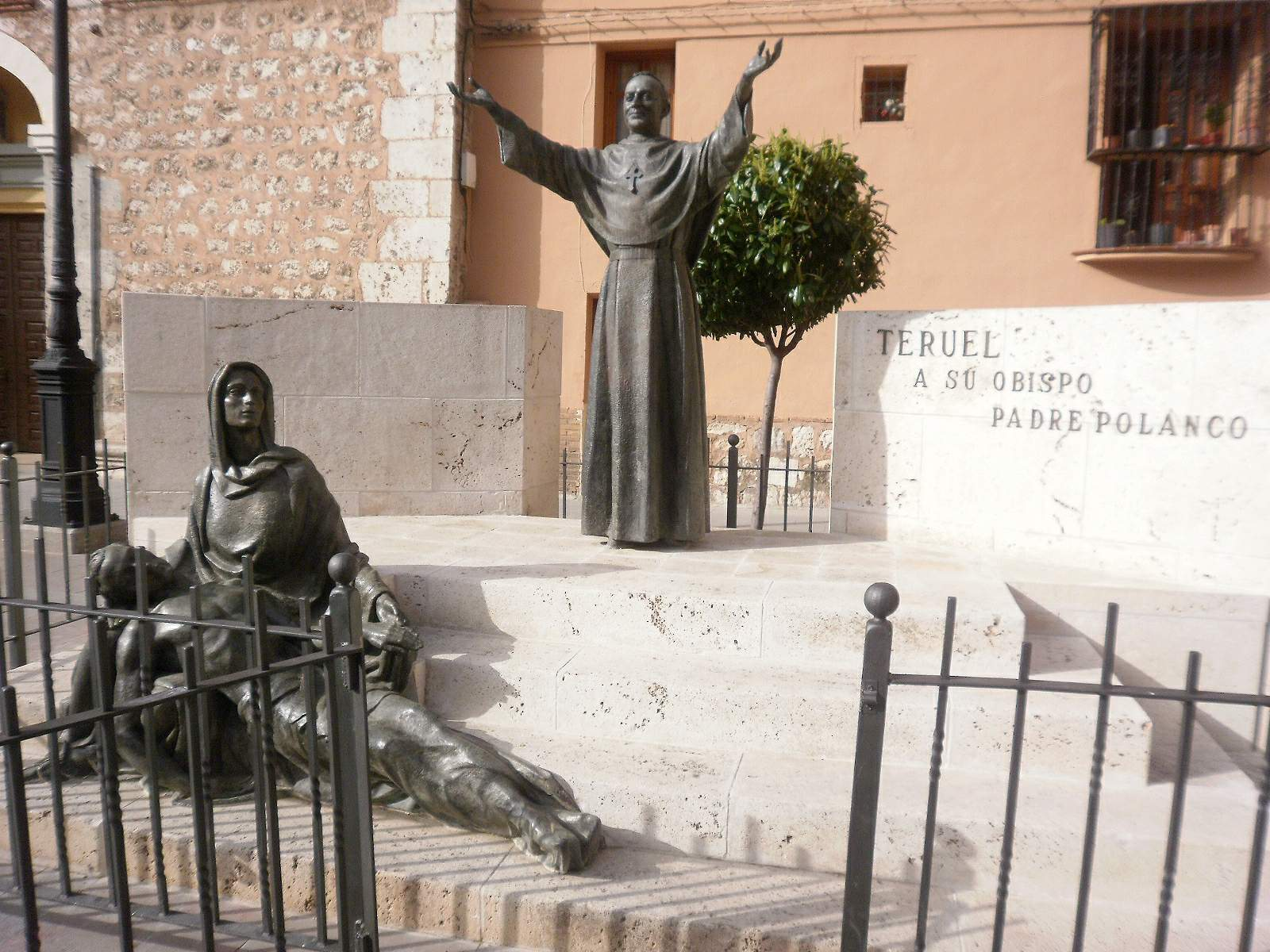 Monumento al obispo Polanco (Teruel)